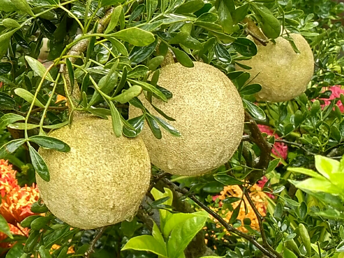 A picture of Limonia acidissima ( Wood apple) with leaves . This photo was captured from National Tree Fair 2018, at Sher-e-Bangla Nagar, Dhaka, Bangladesh. Bangla : কদবেল।